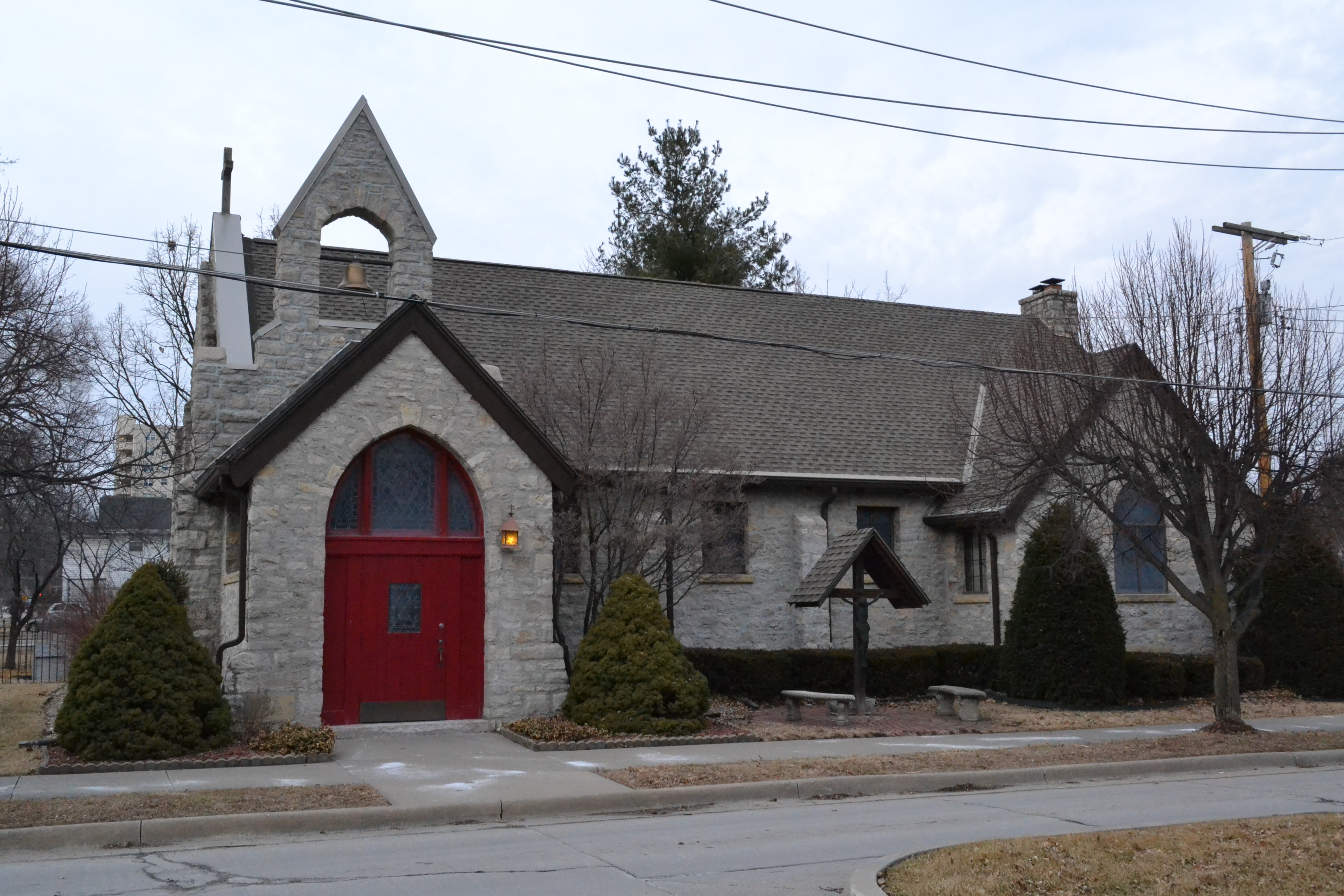 St. Luke's Episcopal Church in Excelsior Springs, Missouri. Part of The Elms Historic District